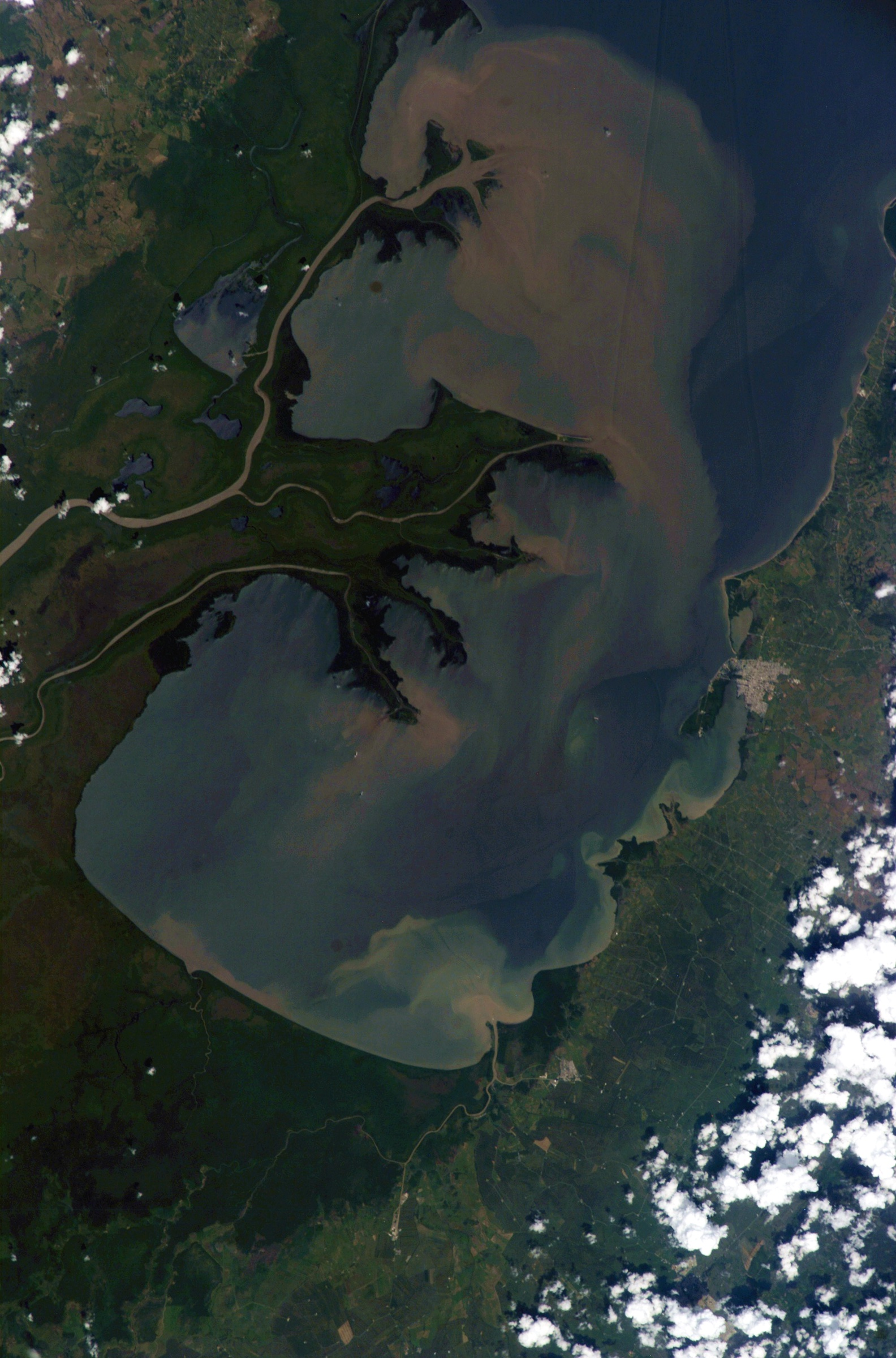 Gulf of Urabá and Atrato River in Colombia, photographed from the International Space Station.